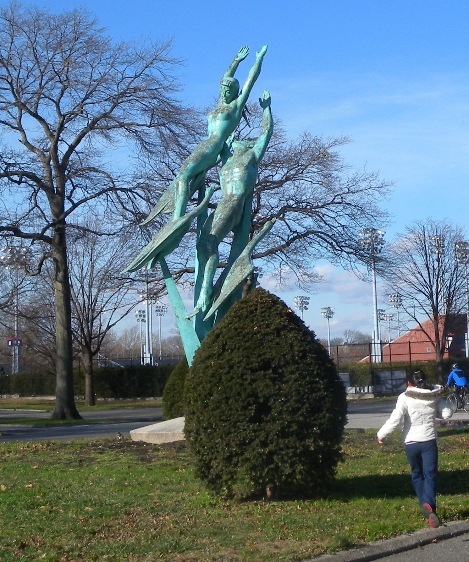 Looking northwest at "Freedom of the Human Spirit" by Marshall M. Fredericks on a sunny late morning.